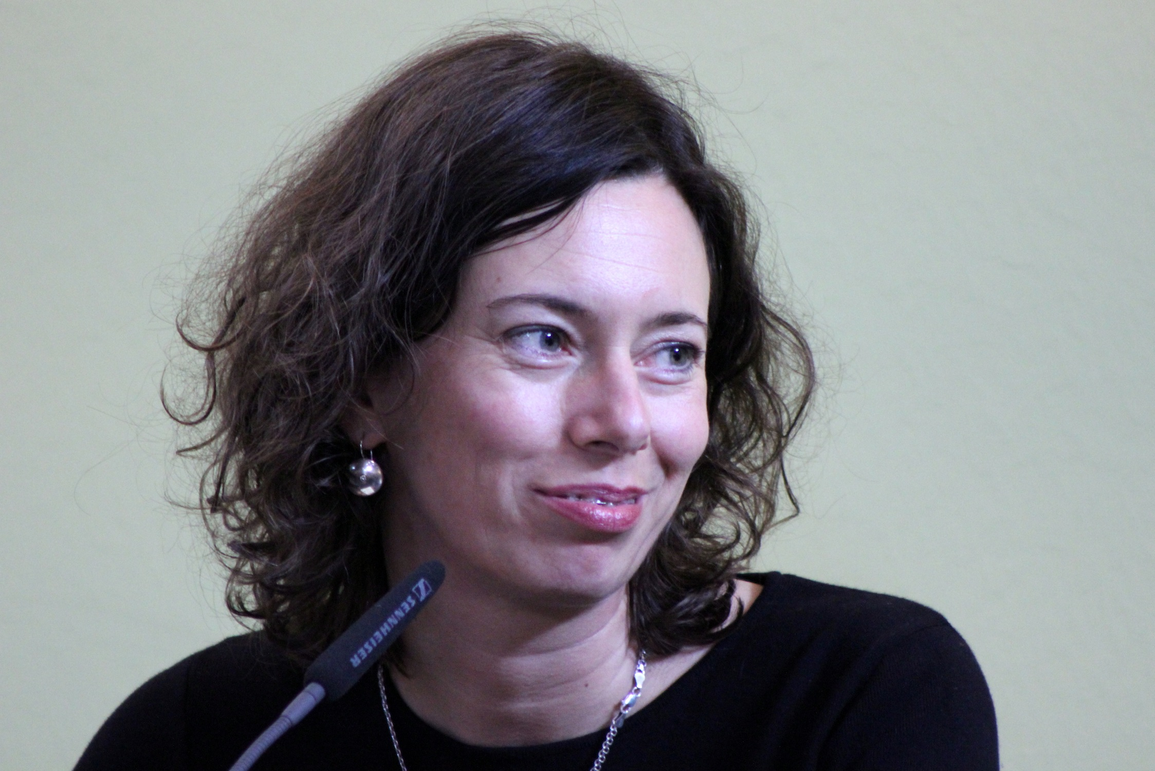 Eva Menasse, Leipzig Bookfair 2013